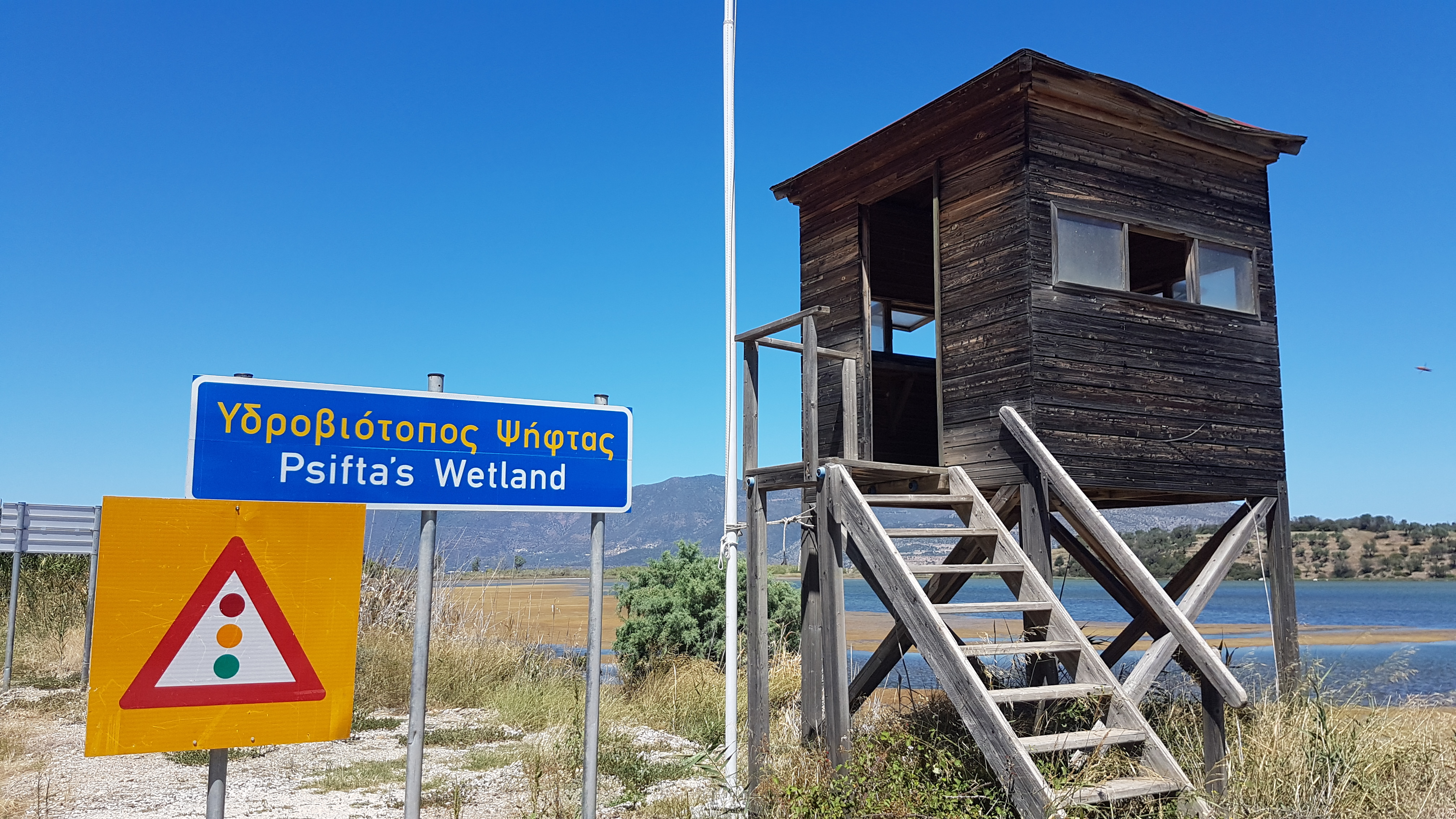 Psifta Lake, Trizina, Greece: Look-out in the west of the lake.